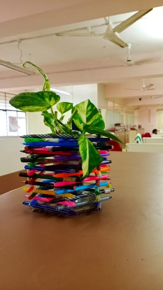 Old plastic pens are reused to make a plant basket.